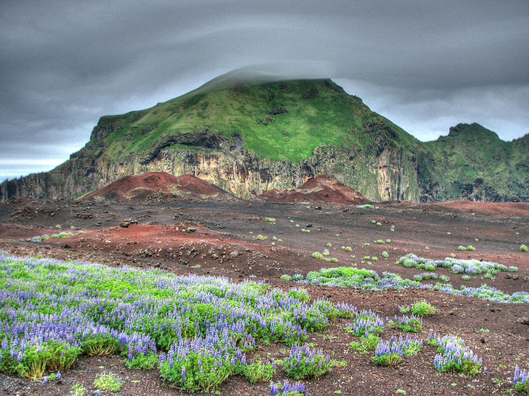 Hill, lava landscape and lupin flowers on Heimaey, Iceland. From the recent lava flow to the other side of the old harbour.